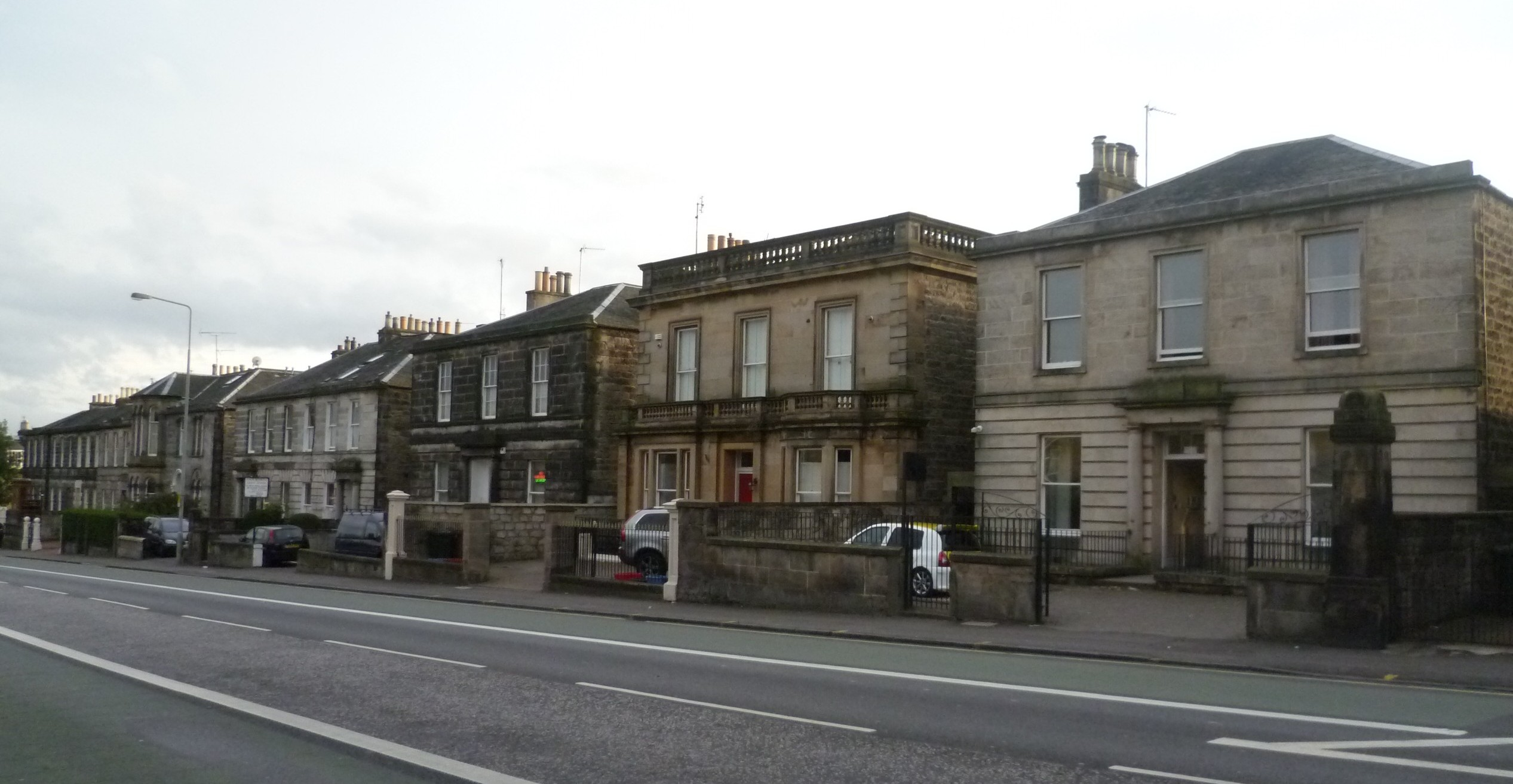 Victorian villas in Minto Street, Newington Edinburgh